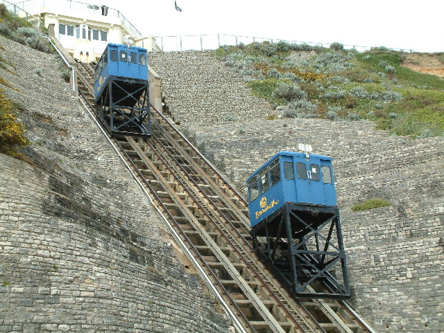 The East Cliff Railway at Bournemouth, Dorset, England. For more information see the Wikipedia article East Cliff Railway .